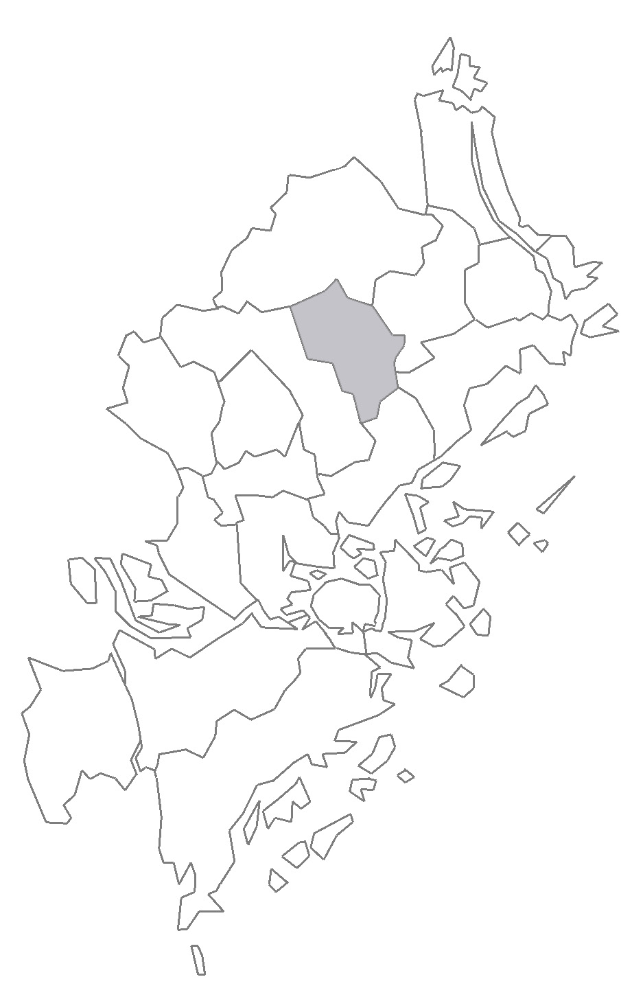 Map describing the location of Sju Hundred in Stockholm County, Sweden.